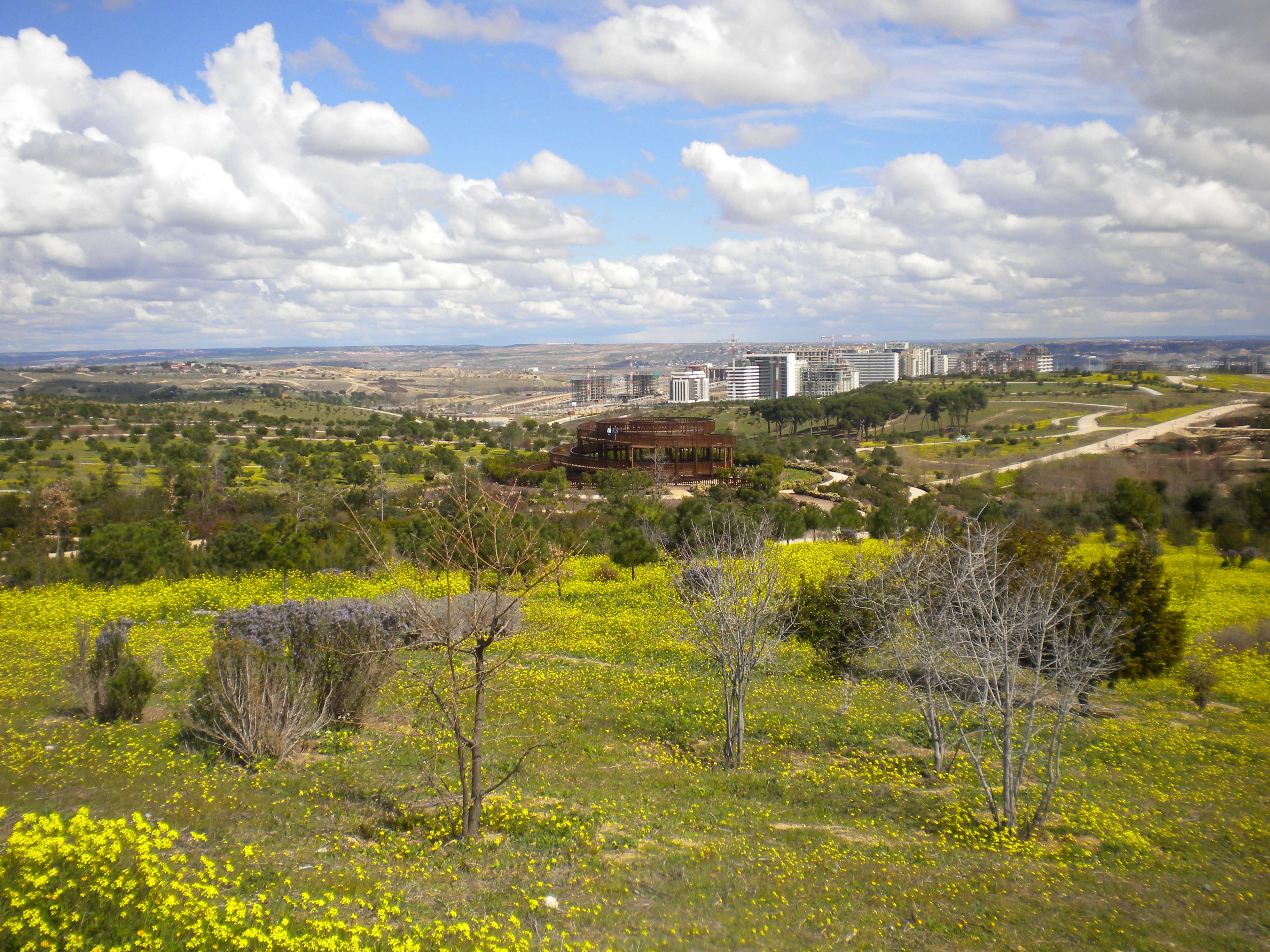 Lookout in Felipe VI park, in Valdebebas.